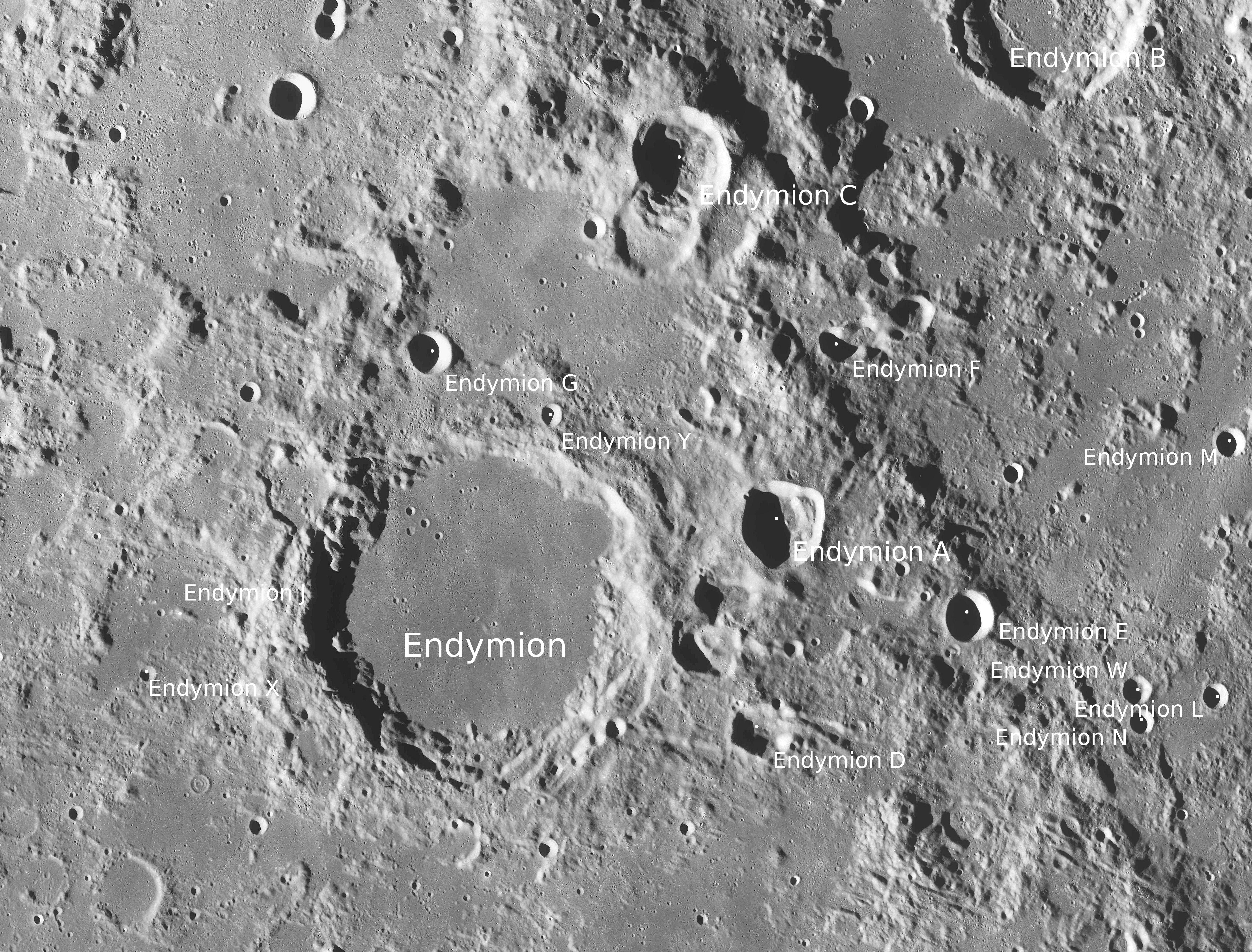 Crater Endymion with satellite features (detail of LRO - WAC global moon mosaic; Mercator projection)